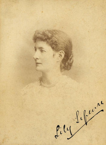 Photograph of Lily Alice Lefevre in 1890. Vancouver Archives identification, Port P129 - Lily Lefevre.